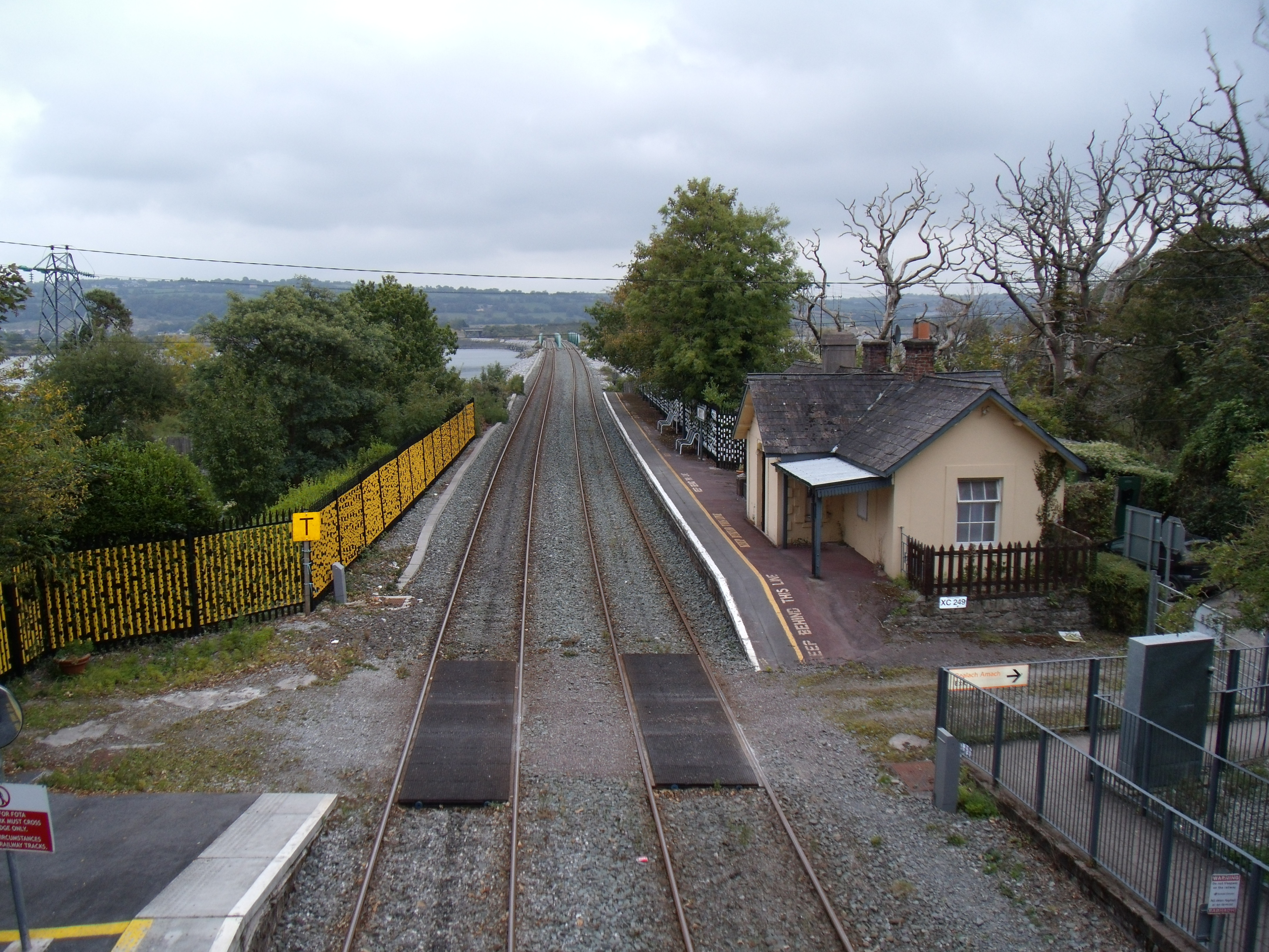 Disused platform which still has modern Iarnród Éirann signs and benches on it. Viewed from the footbridge of the current station. Please ignore the date and time given in the extended details as this photogaraph was taken in the local Summer (third quarter) of 2011. I uploaded this before I knew that the date and time on my camera was out of sync.